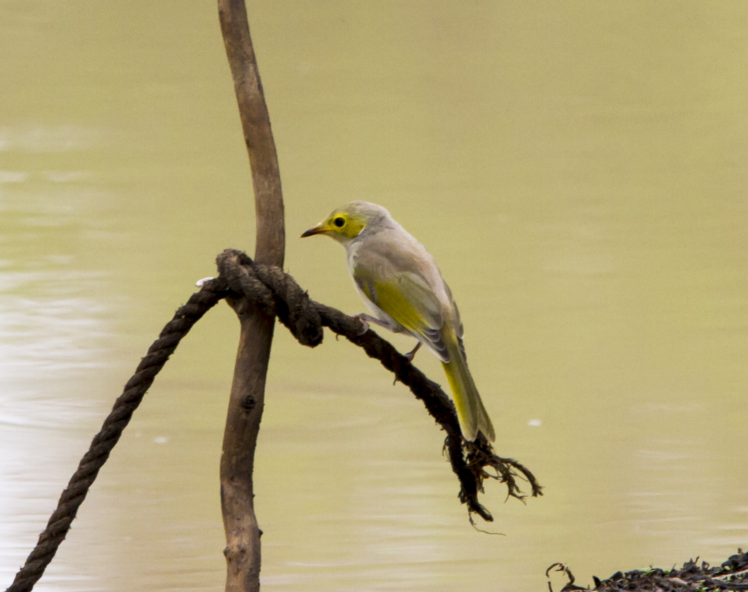 A juvenile White-plumed honeyeater rests after drinking from the Warrego river.